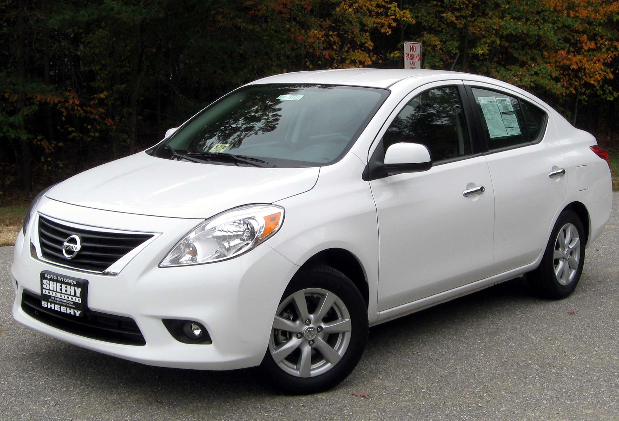 2012 Nissan Versa photographed in Waldorf, Maryland, USA.